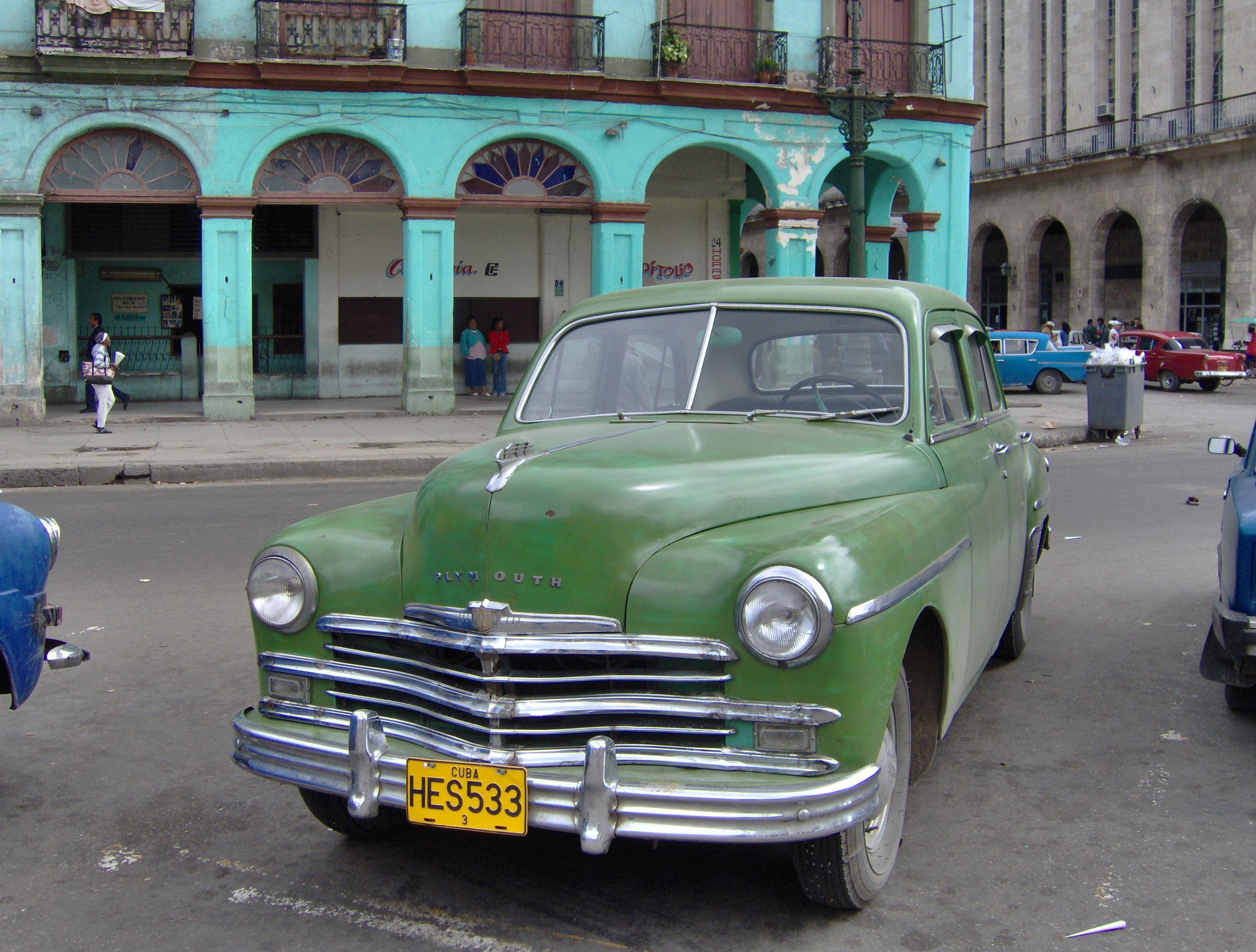 Plymouth Deluxe 4 door sedan (picture taken in Havana, Cuba)